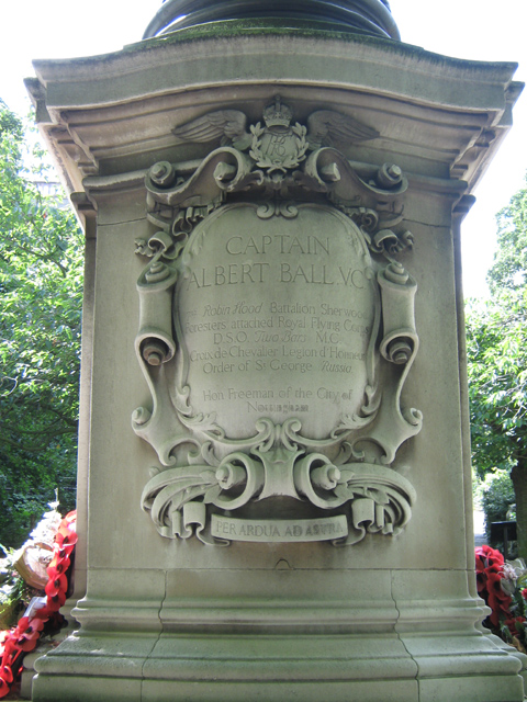 Memorial to Albert Ball V.C. On Nottingham castle green. A monument to the WWI fighter ace